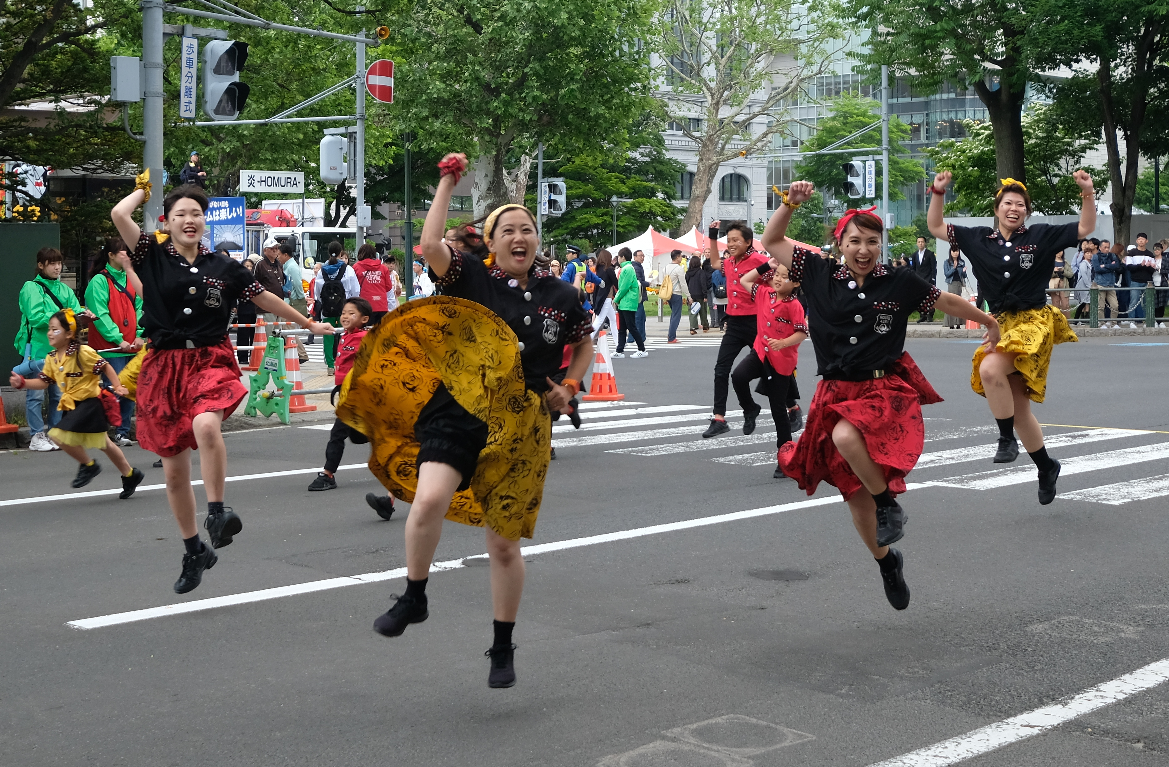 This photo has been taken in the country: Japan